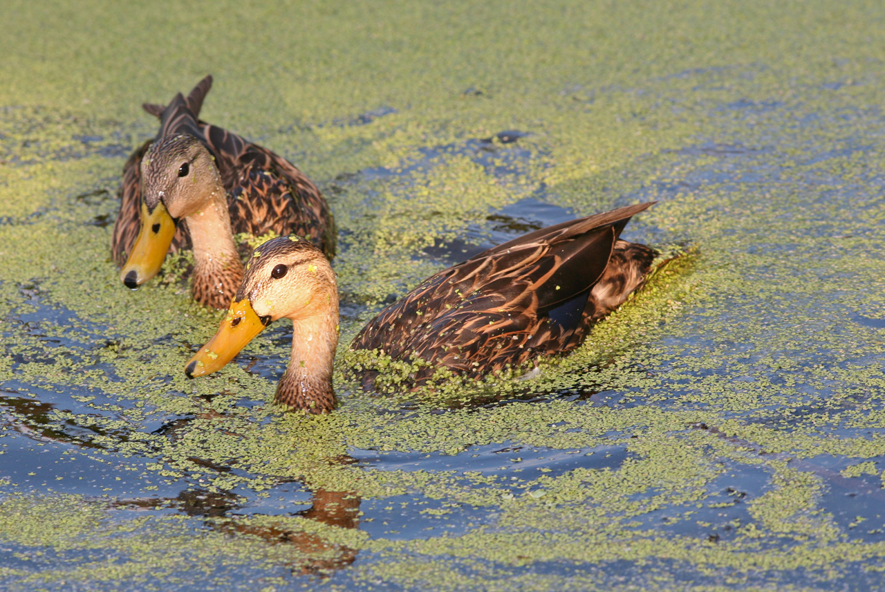 Two Mottled Ducks in West Palm Beach, Florida.